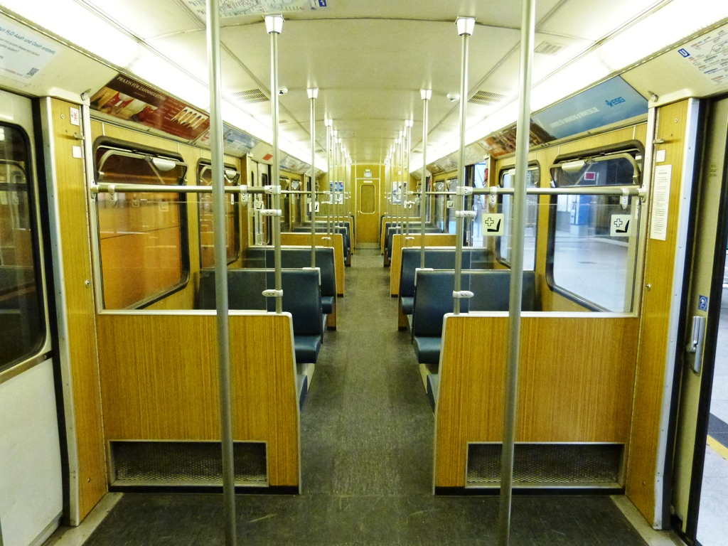 Interiour of a A-Type train of Munich´s Subway